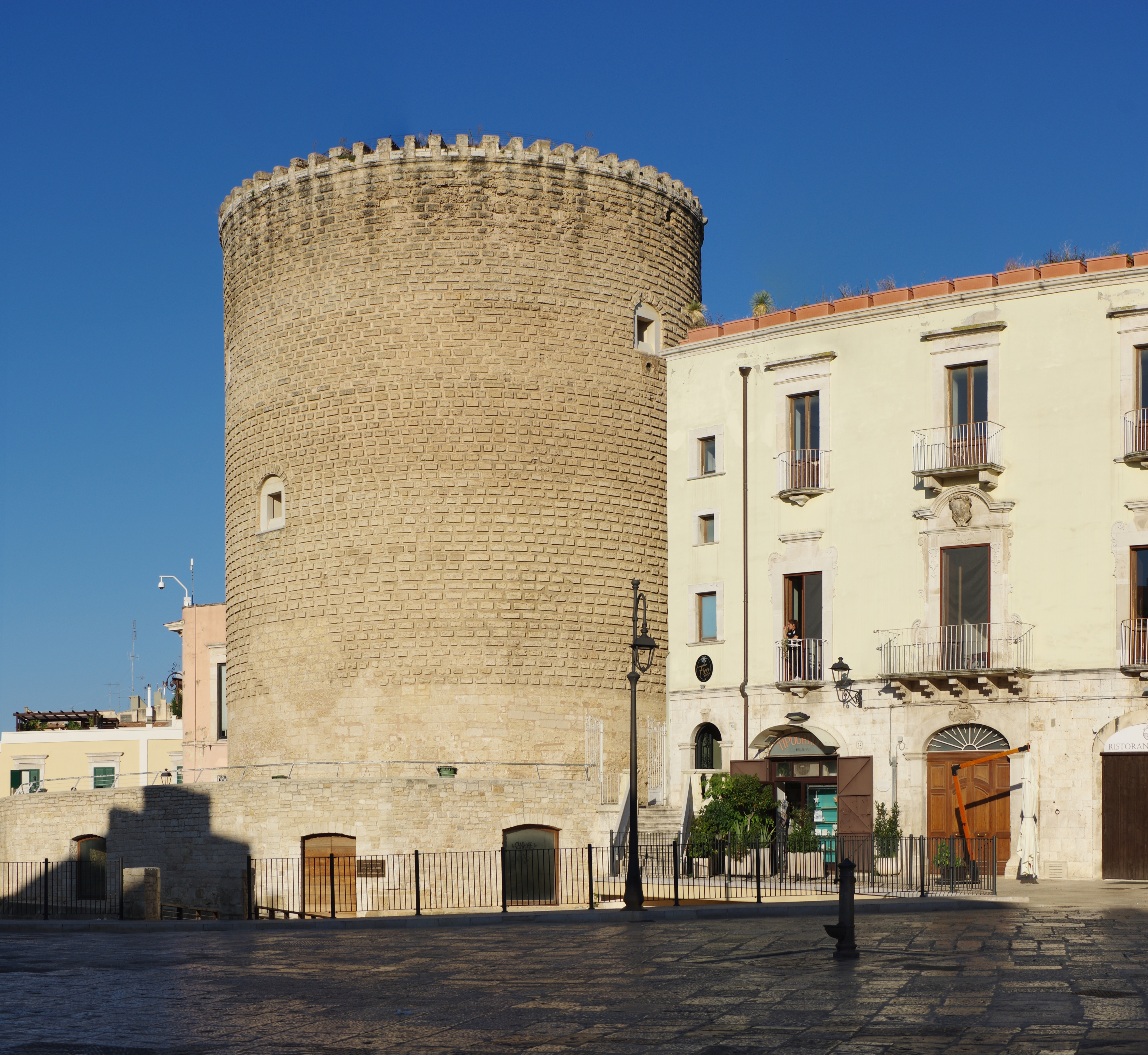 Italy, Bitonto, Torrione Angioino